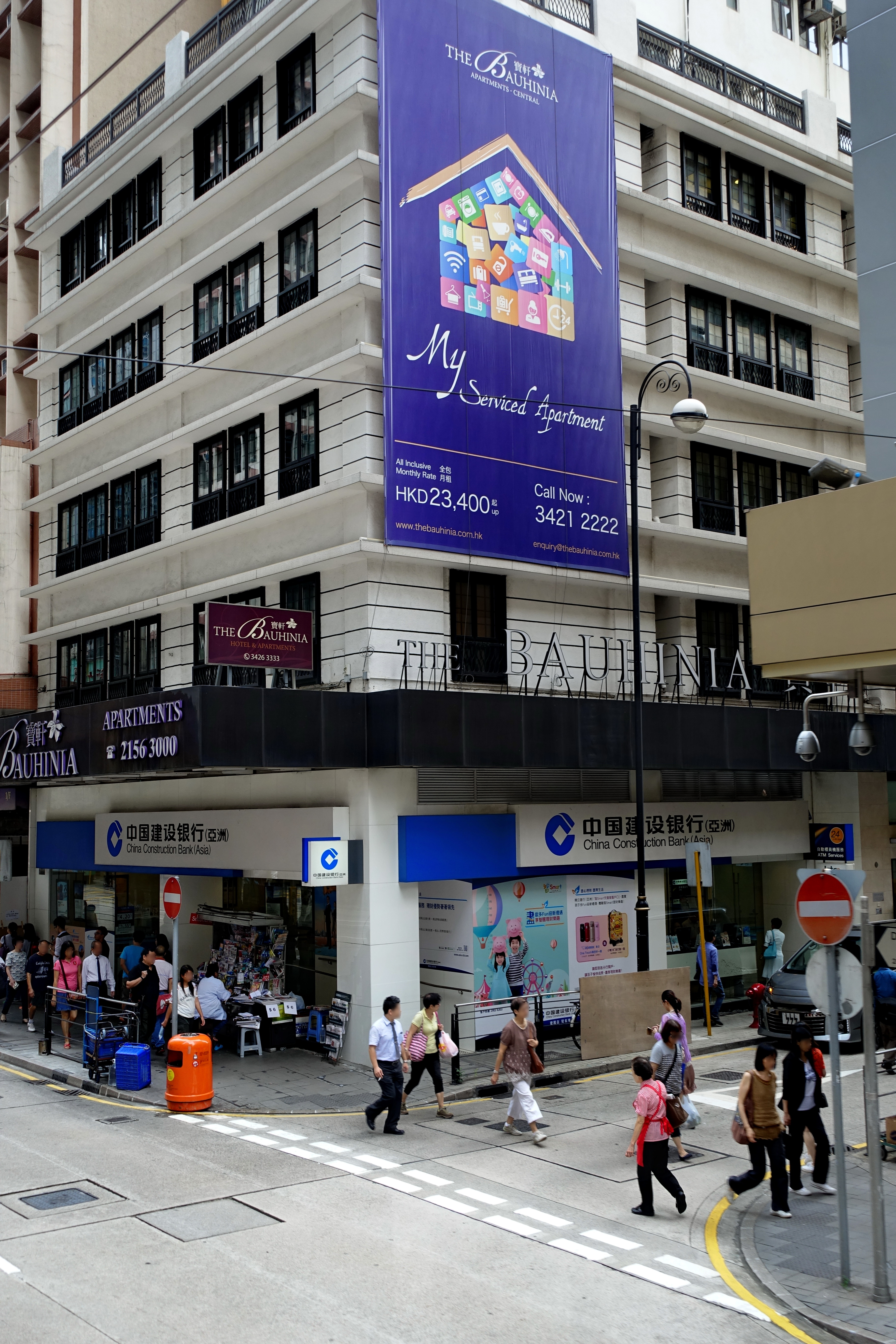 Bauhinia Apartments at Des Voeux Road Central and Man Wa Lane, Sheung Wan, Hong Kong.